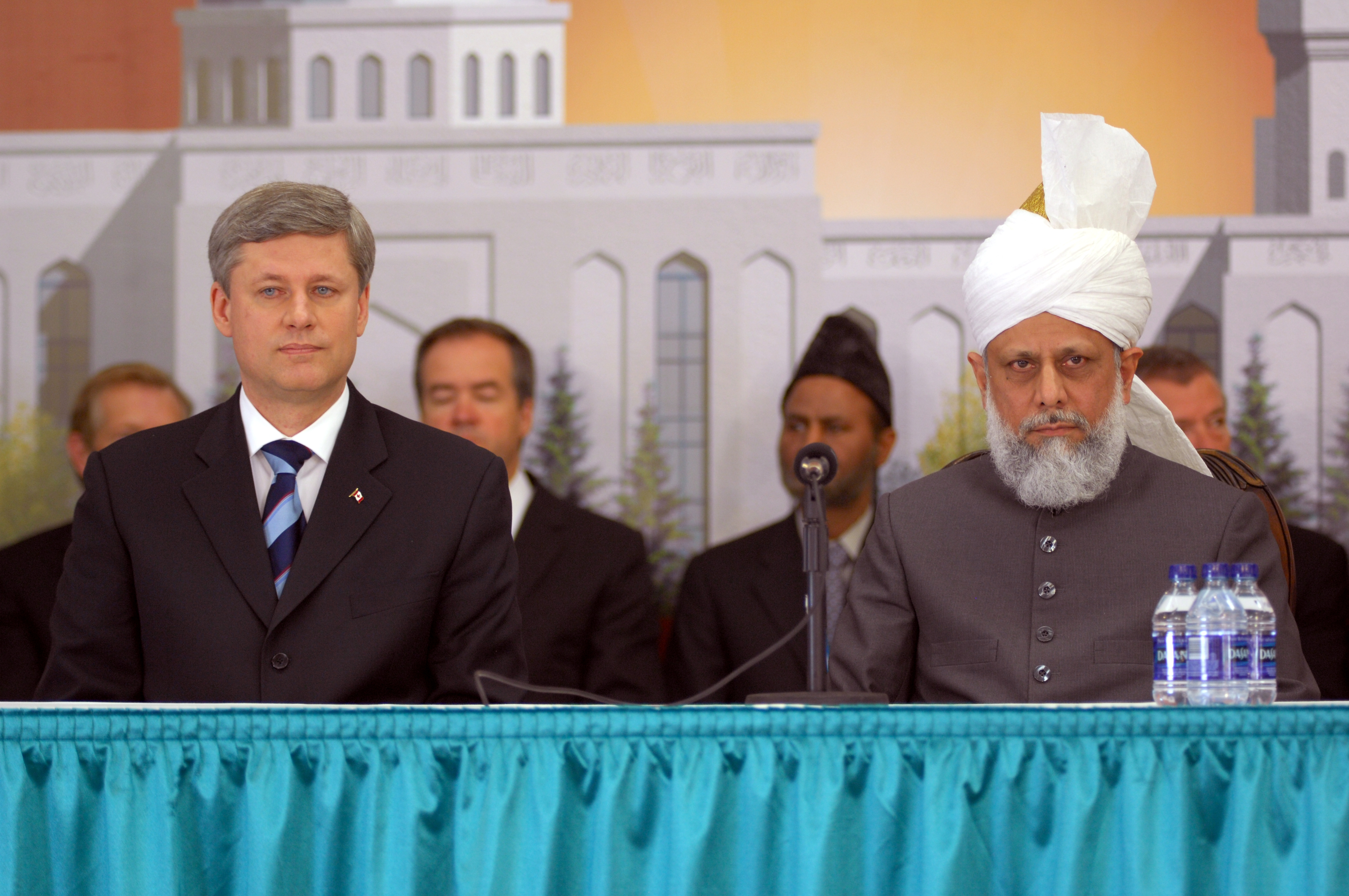 The Canadian Prime Minister, Stephen Harper (left) is seated next to His Holiness Mirza Masroor Ahmad at the opening inauguration of the Baitan Nur Mosque in Calgary, Alberta, considered the largest mosque in Canada.